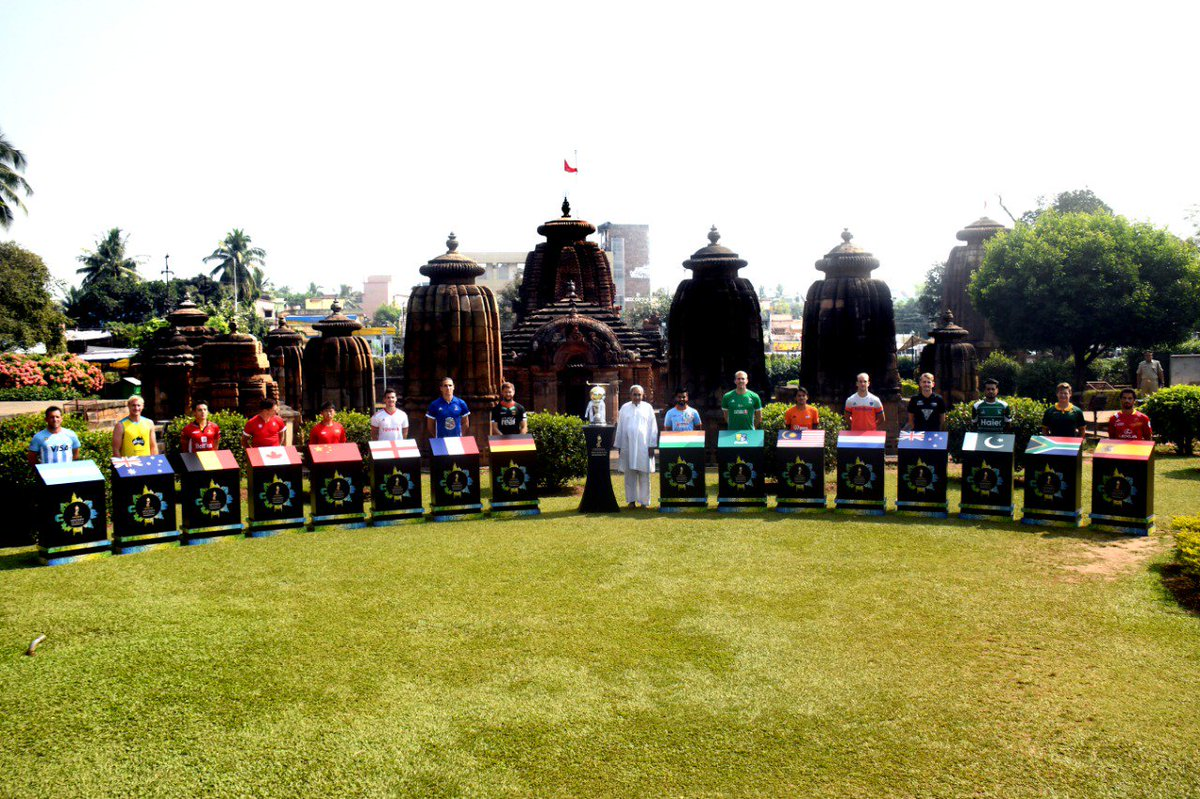 Tweet Text: Enjoyed interacting with the captains of the 16 teams participating in the #Odisha #Hockey Men’s World Cup as they got to see the intricate carvings in the statuary of Mukteswar temple in #Bhubaneswar #HWC2018; welcomed them to Odisha and wished the very best